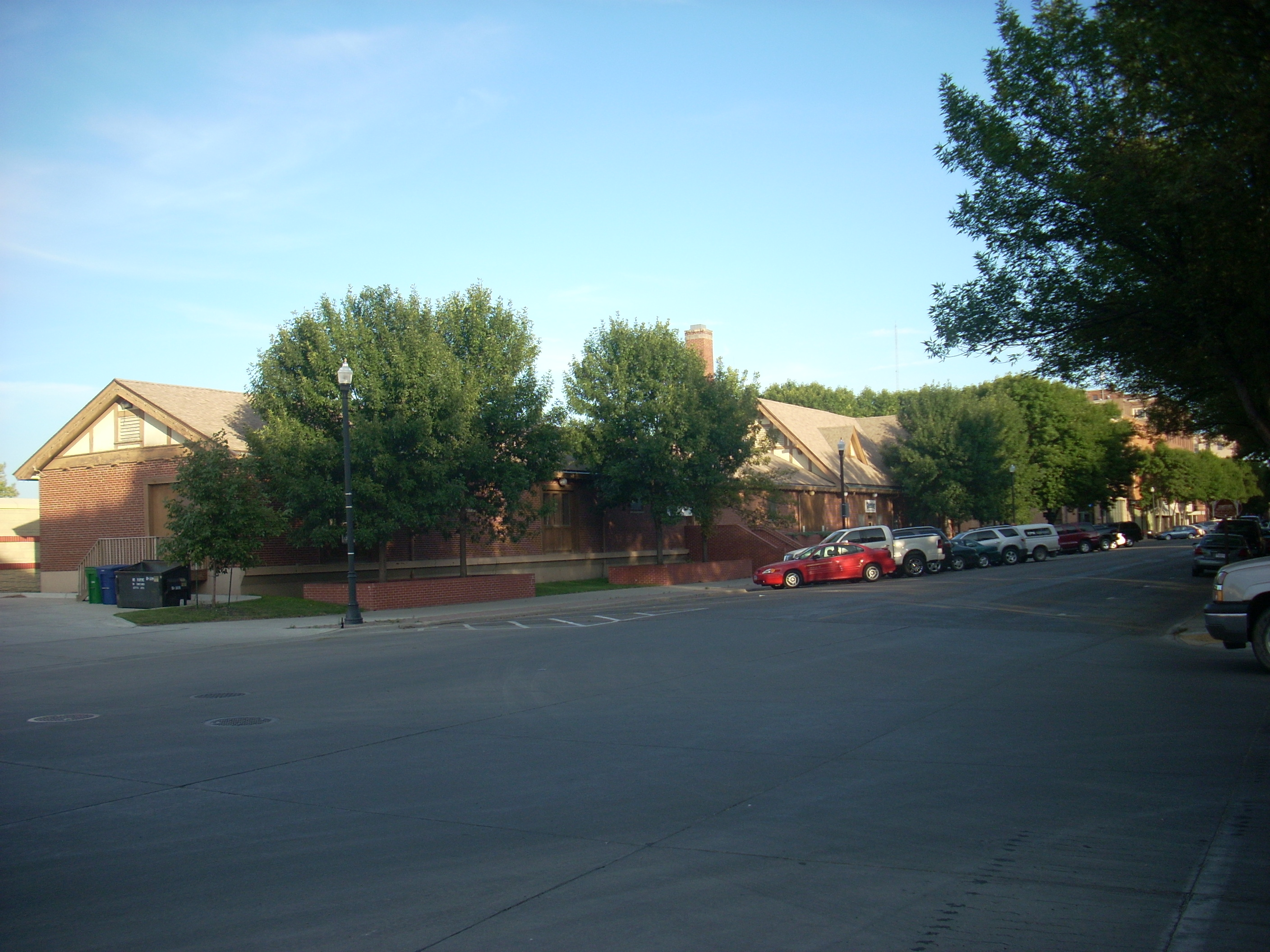 Former Northern Pacific Depot and Freight House, Grand Forks, ND. Now contains offices and Chamber of Commerce. Listed on the National Register of Historic Places.